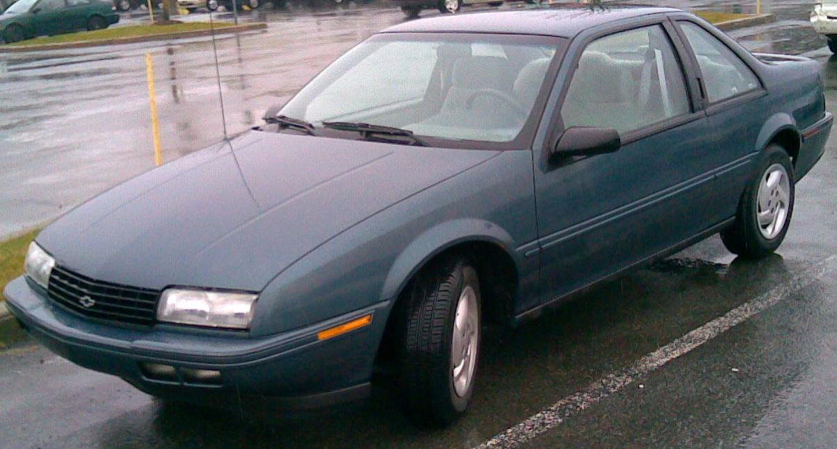 1987-1996 Chevrolet Beretta photographed in Montreal, Quebec, Canada.